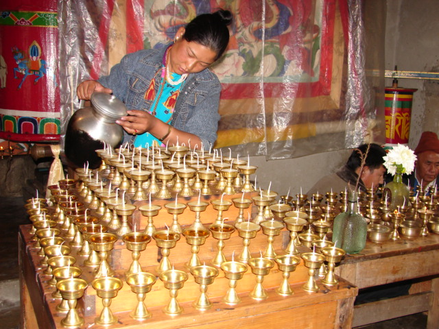 Lamp filling ritual in a Buddhist temple in Sikkim, India